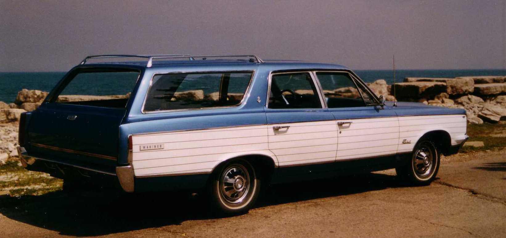 1967 Rambler Rebel station wagon — this is a special "Mariner" edition — by American Motors Corporation (AMC)